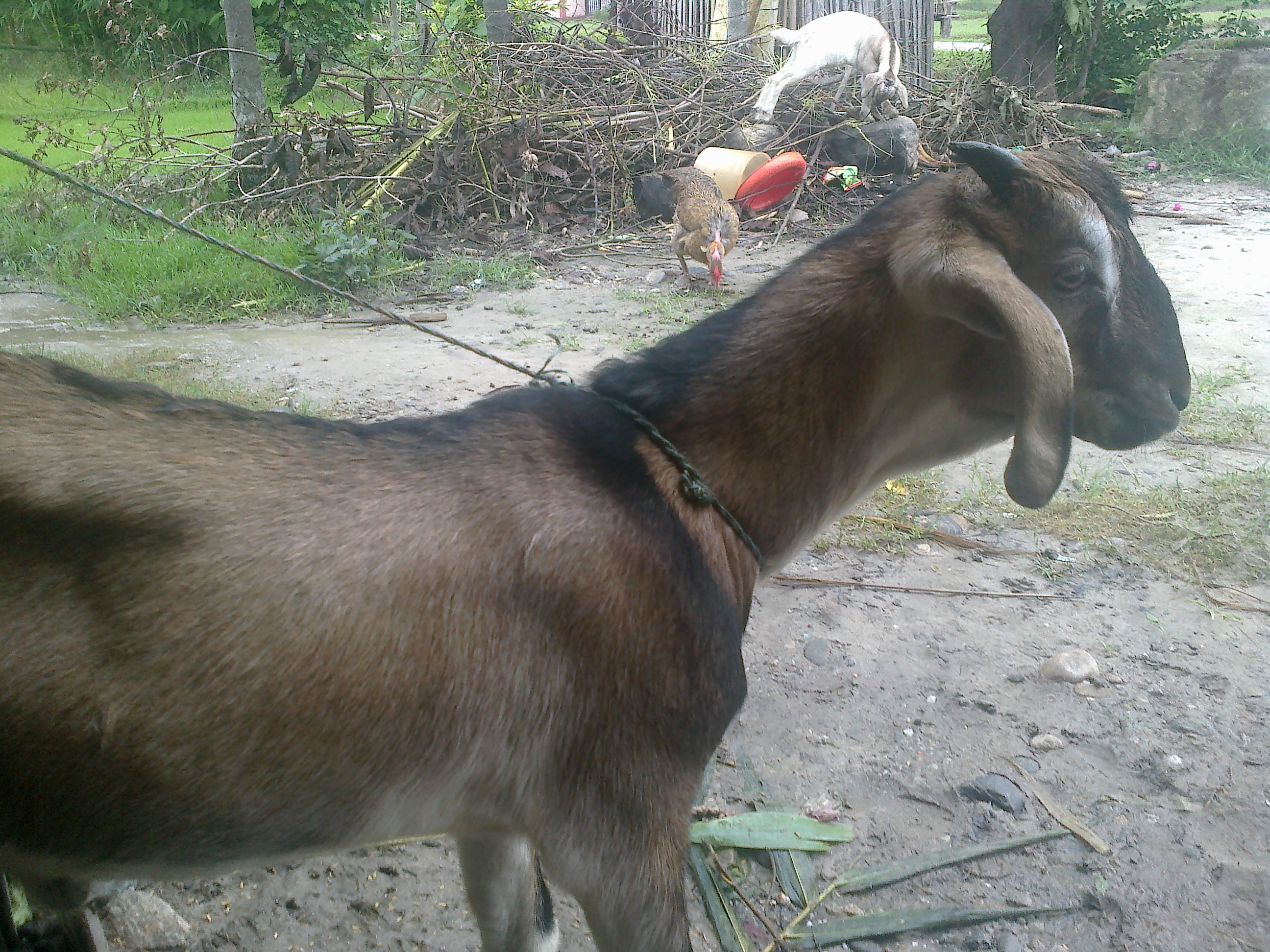 Photo showing jamnapari goat in village area of nepal.